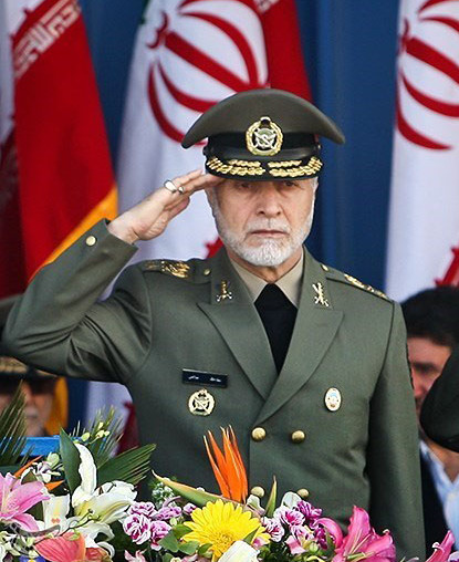 Major General Ataollah Salehi Ataollah Salehi and Commander in Chief Mohammad Salimi.